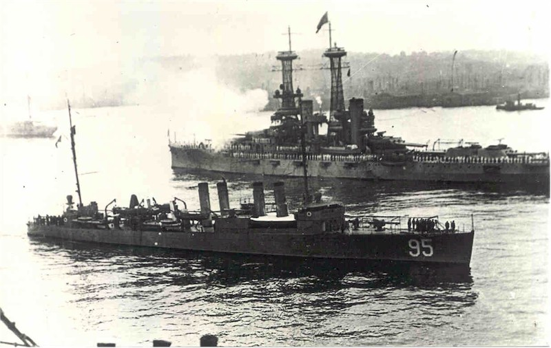 The U.S. Navy destroyer USS Bell (DD-95), circa in 1920. A battleship is beyond Bell.